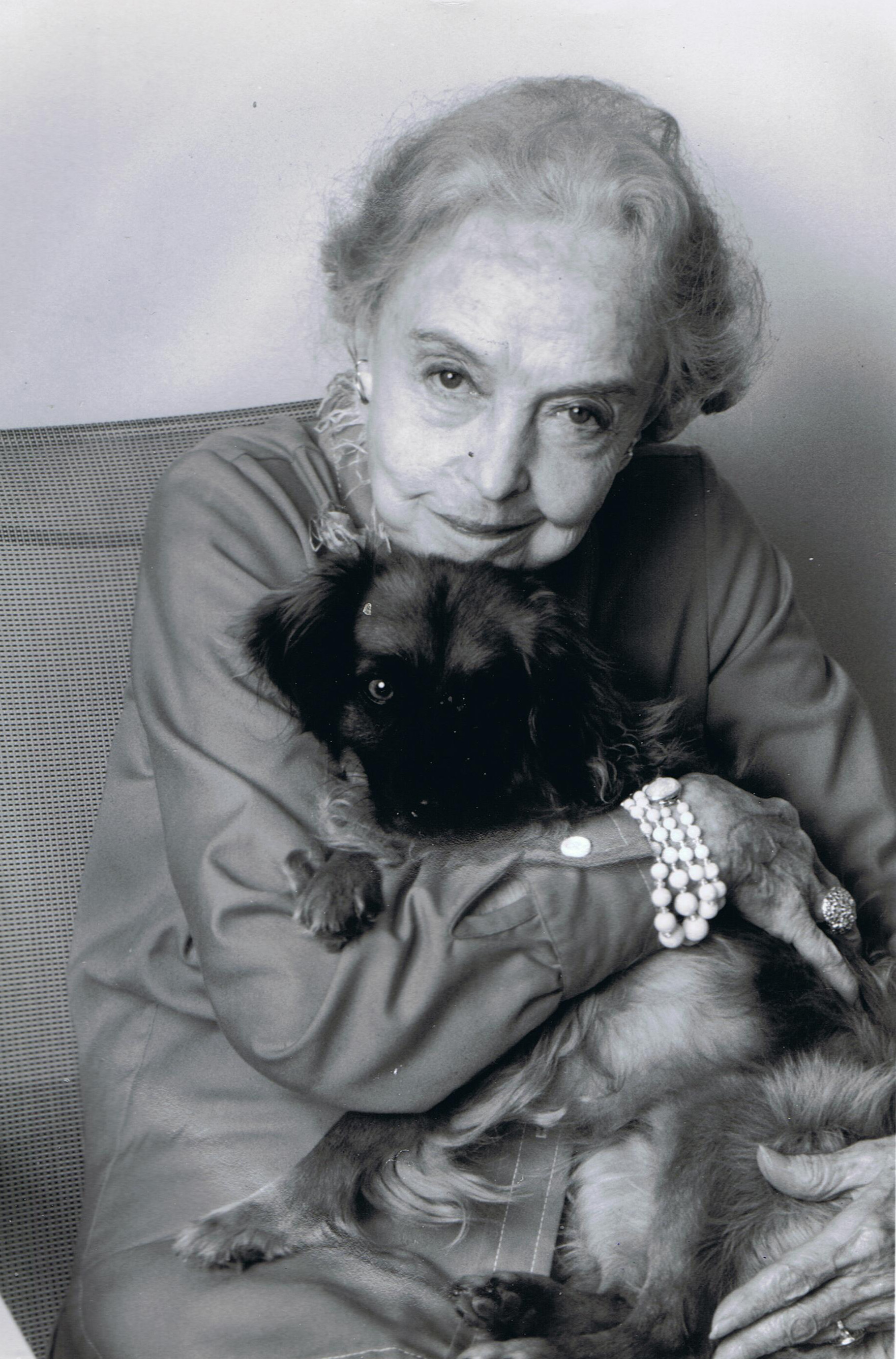 Lillian Gish in Paris in 1983